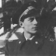 Italian World War II ace Giuseppe Cenni, posthumous recipient of the Gold Medal for Military Valor.